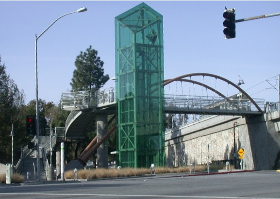 Photo of the Hamilton station on the Santa Clara VTA light rail system - view from intersection of Hamilton Avenue and Creekside Way.